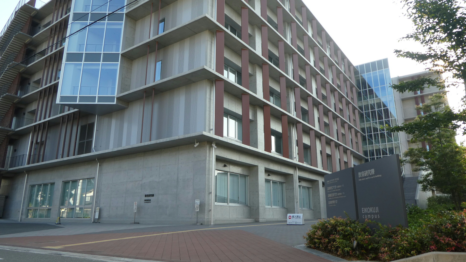 University of Kochi Eikokuji Campus